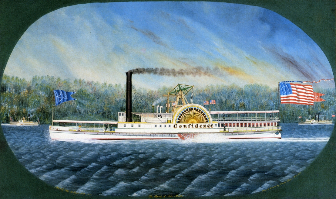 Confidence, Hudson River steamboat built 1849, later transferred to California. Oil on canvas by James Bard.